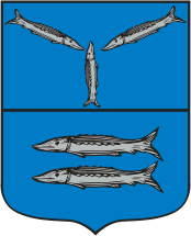 Khvalynsk (Saratov oblast), coat of arms (1780)